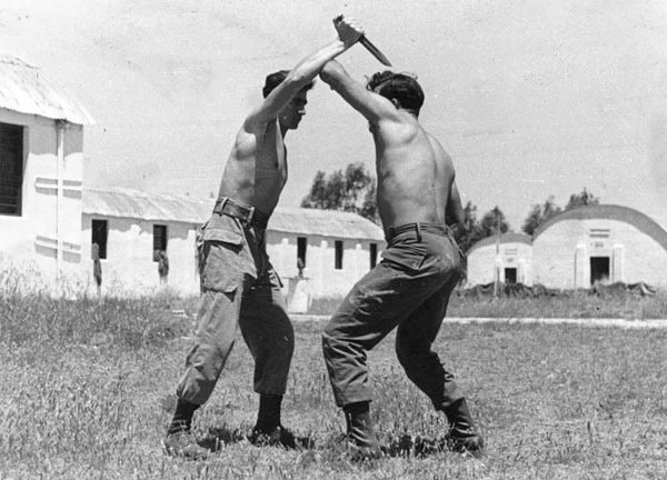 "Krav maga" lesson in paratroopers school. Israel, 1955